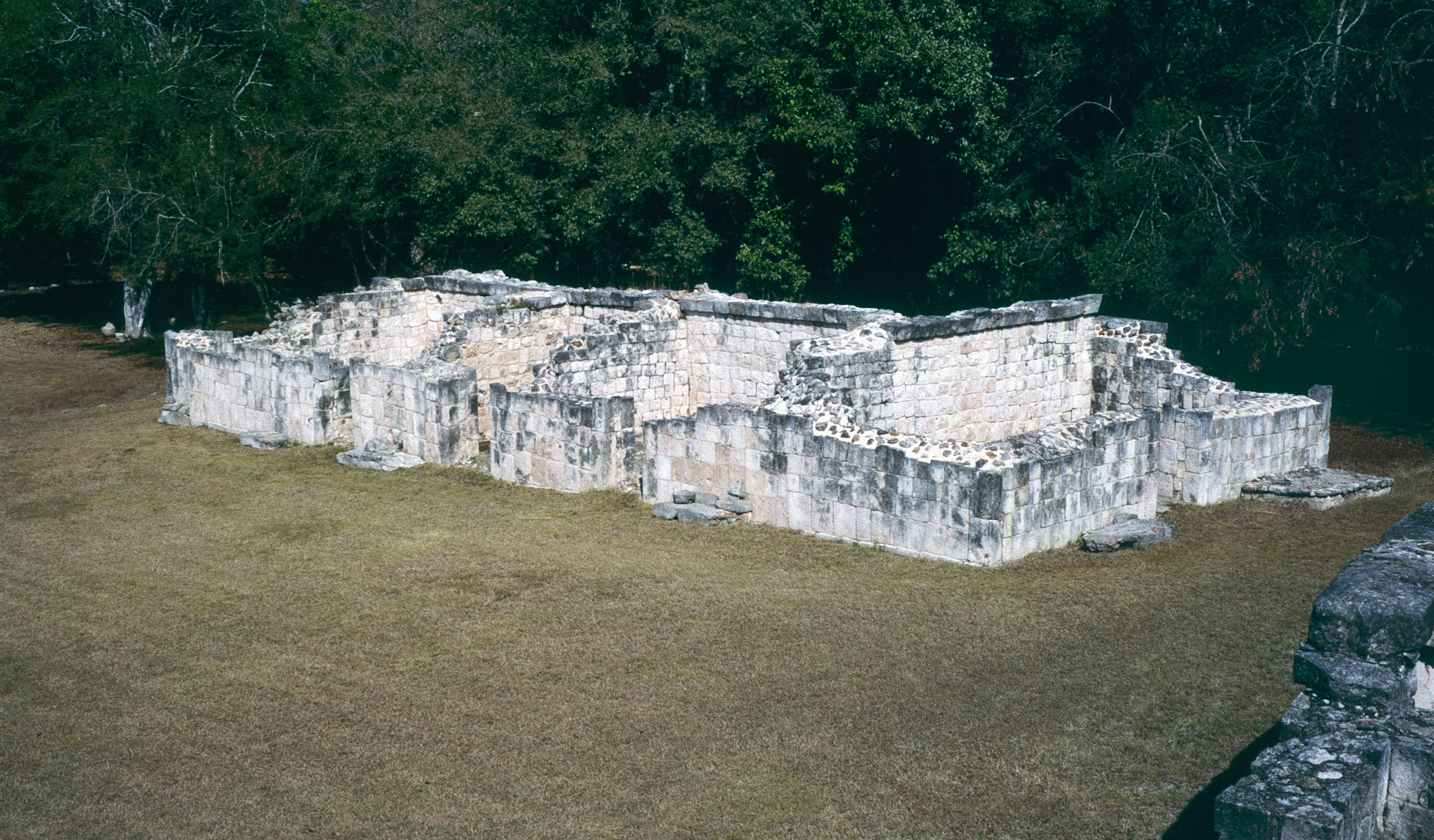 Kabah, Yucatan, Mexico: building west of 2C1